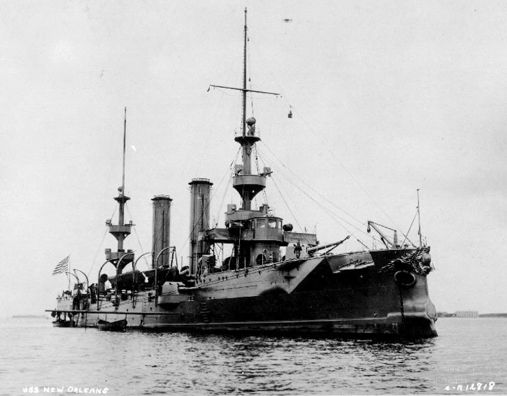 USS New Orleans (1898-1929) Photographed during the Spanish-American War, 1898. Original caption: “Photo # NH 45115 USS New Orleans in 1898” — removed caption